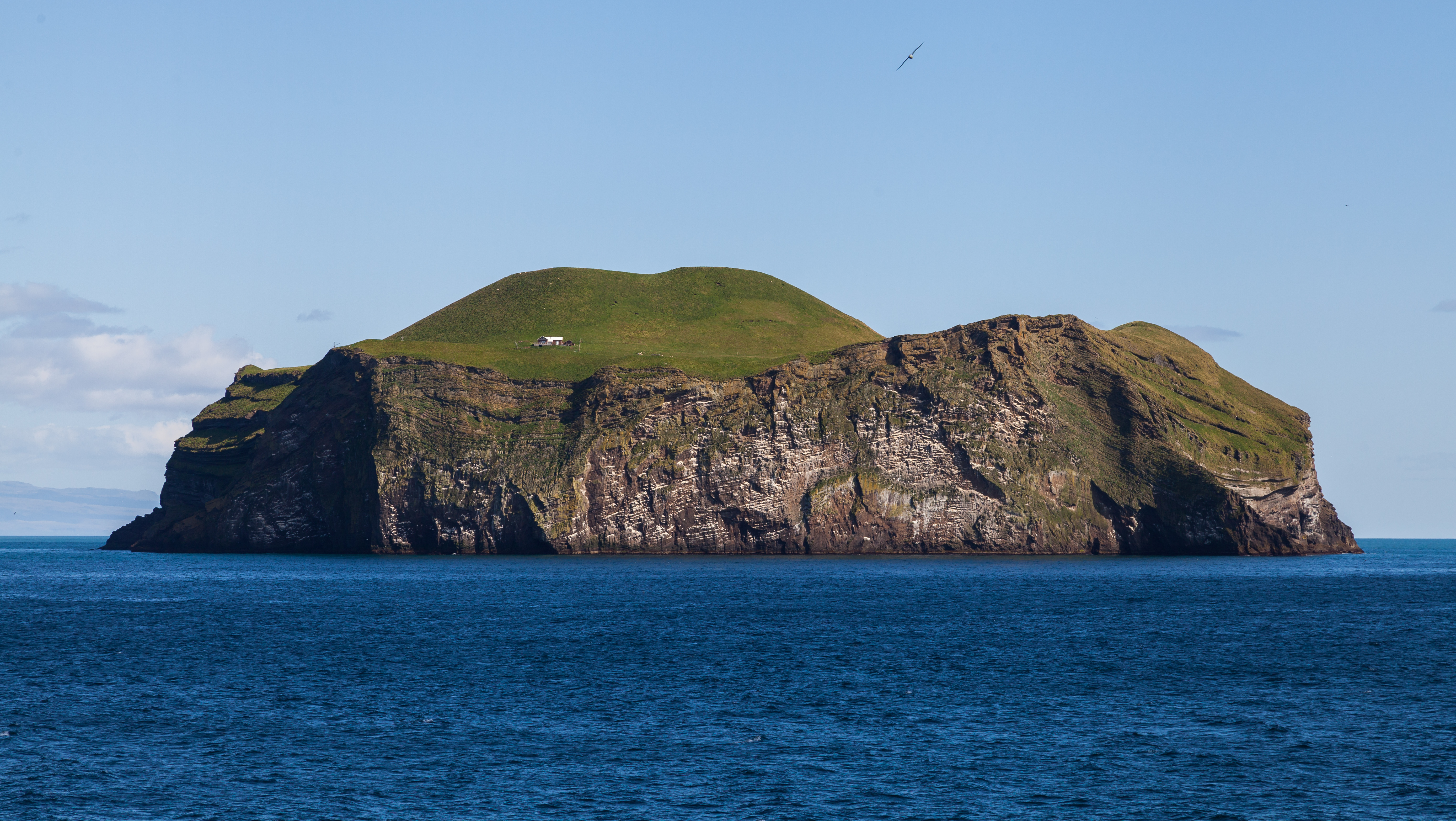 Bjarnarey island, Westman Islands, Suðurland, Iceland